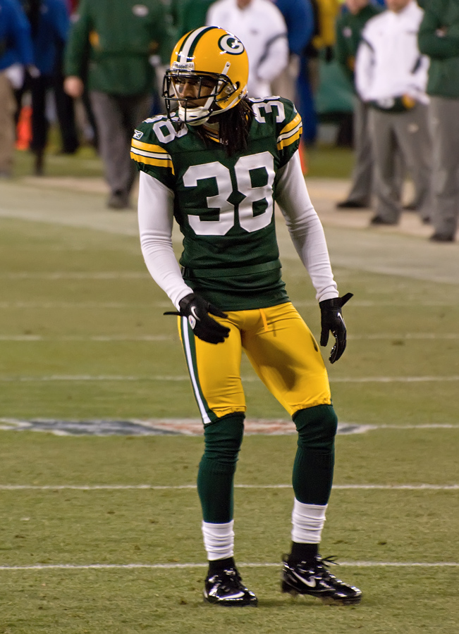 Chicago Bears vs. Green Bay Packers at Lambeau Field on December 25, 2011. Photo by Mike Morbeck.